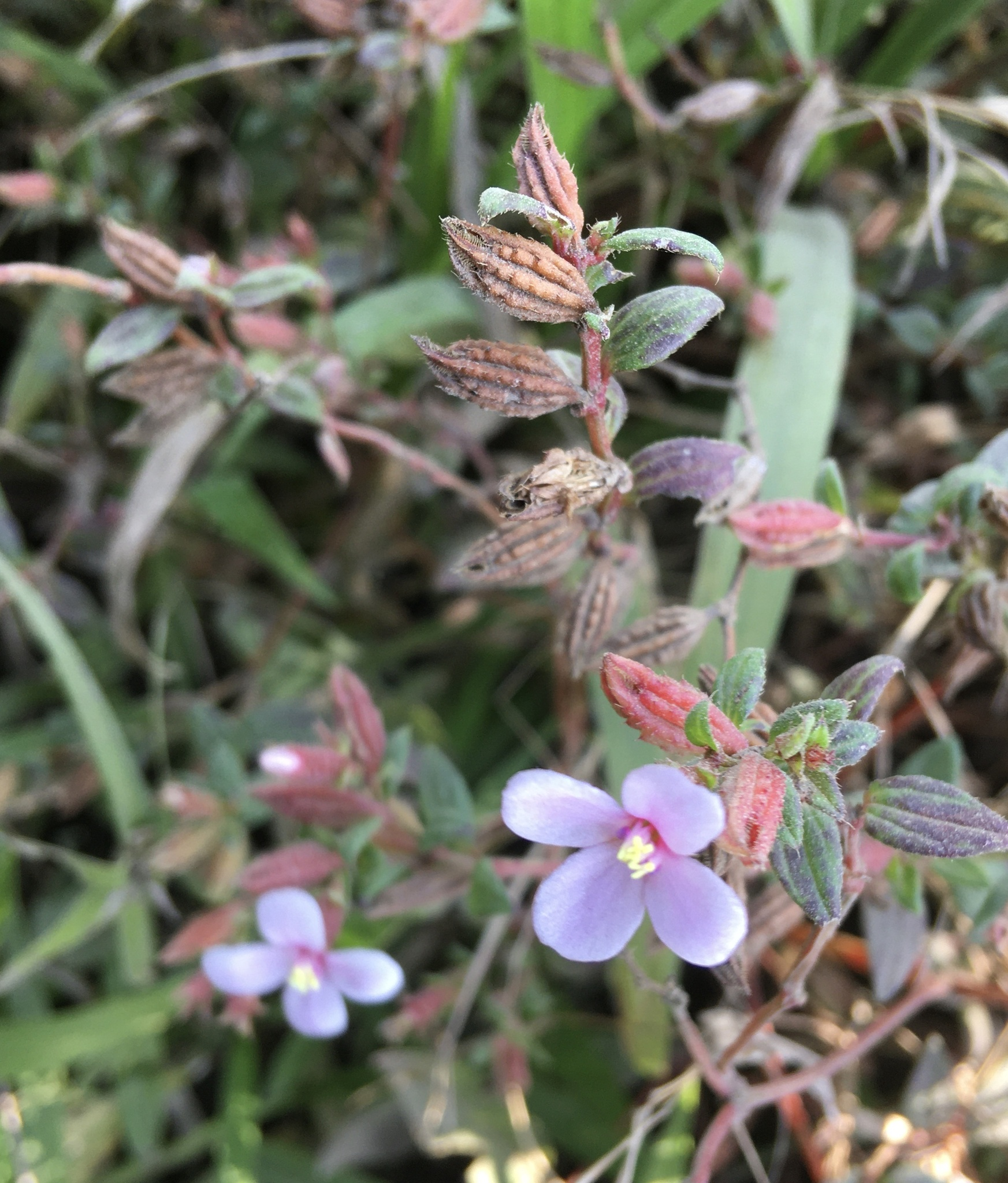 Schwackaea cupheoides. Species of plant.